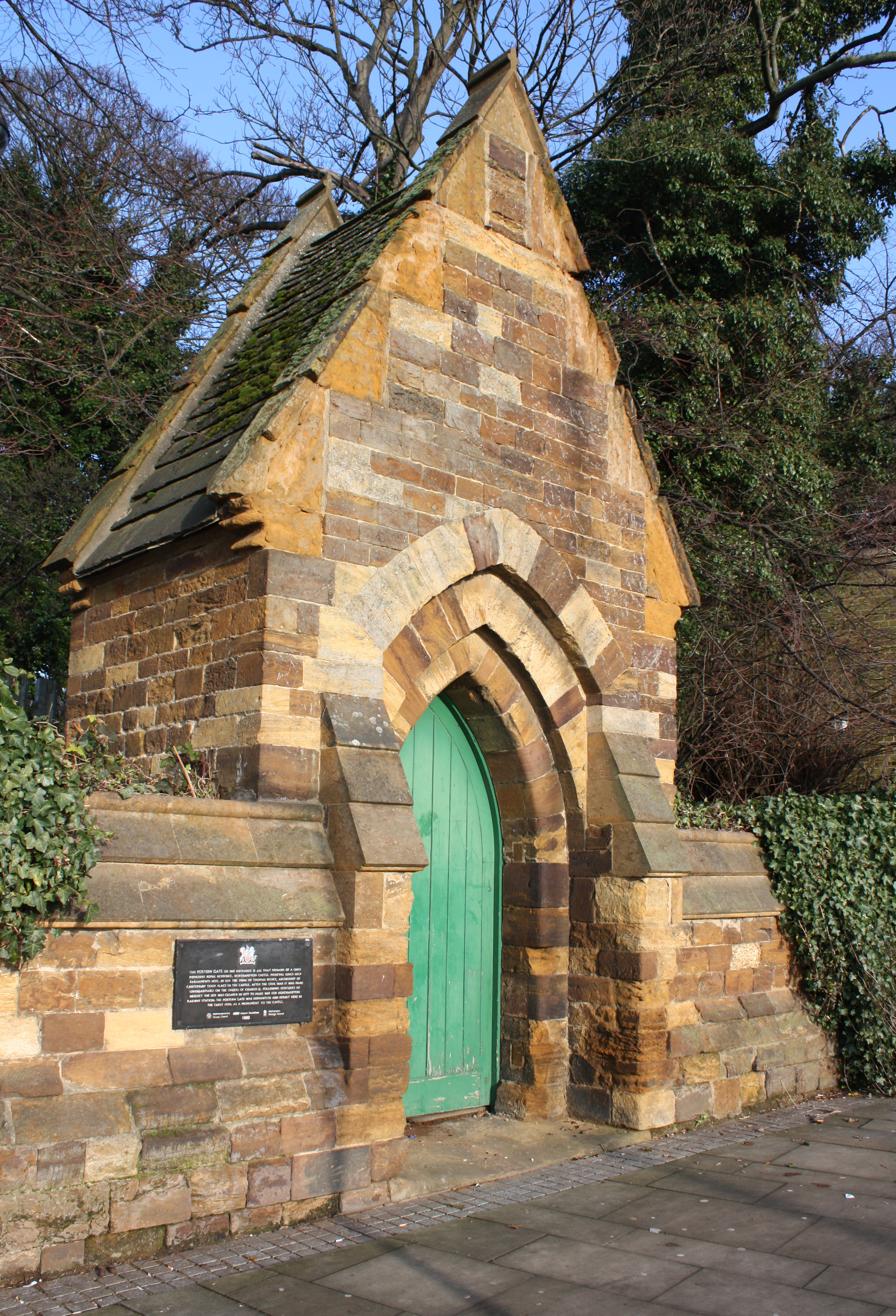 Postern gate remains of Northampton Castle in the wall adjacent to Nothampton Castle Station, taken January 2013